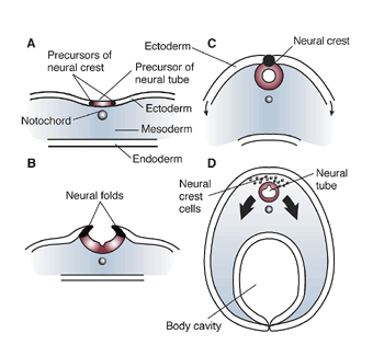 Formation of the neural tube (cross view). Early in an embryo’s development, a strip of specialized cells called the notochord (A) induces the cells of the ectoderm directly above it to become the primitive nervous system (i.e., neuroepithelium). The neuroepithelium then wrinkles and folds over (B). As the tips of the folds fuse together, a hollow tube (i.e., the neural tube) forms (C)—the precursor of the brain and spinal cord. Meanwhile, the ectoderm and endoderm continue to curve around and fuse beneath the embryo to create the body cavity, completing the transformation of the embryo from a flattened disk to a three–dimensional body. Cells originating from the fused tips of the neuroectoderm (i.e., neural crest cells) migrate to various locations throughout the embryo, where they will initiate the development of diverse body structures (D). Researchers investigating fetal alcohol syndrome have extensively studied neural crest cells, because they are particularly sensitive to alcohol–induced injury and cell death.